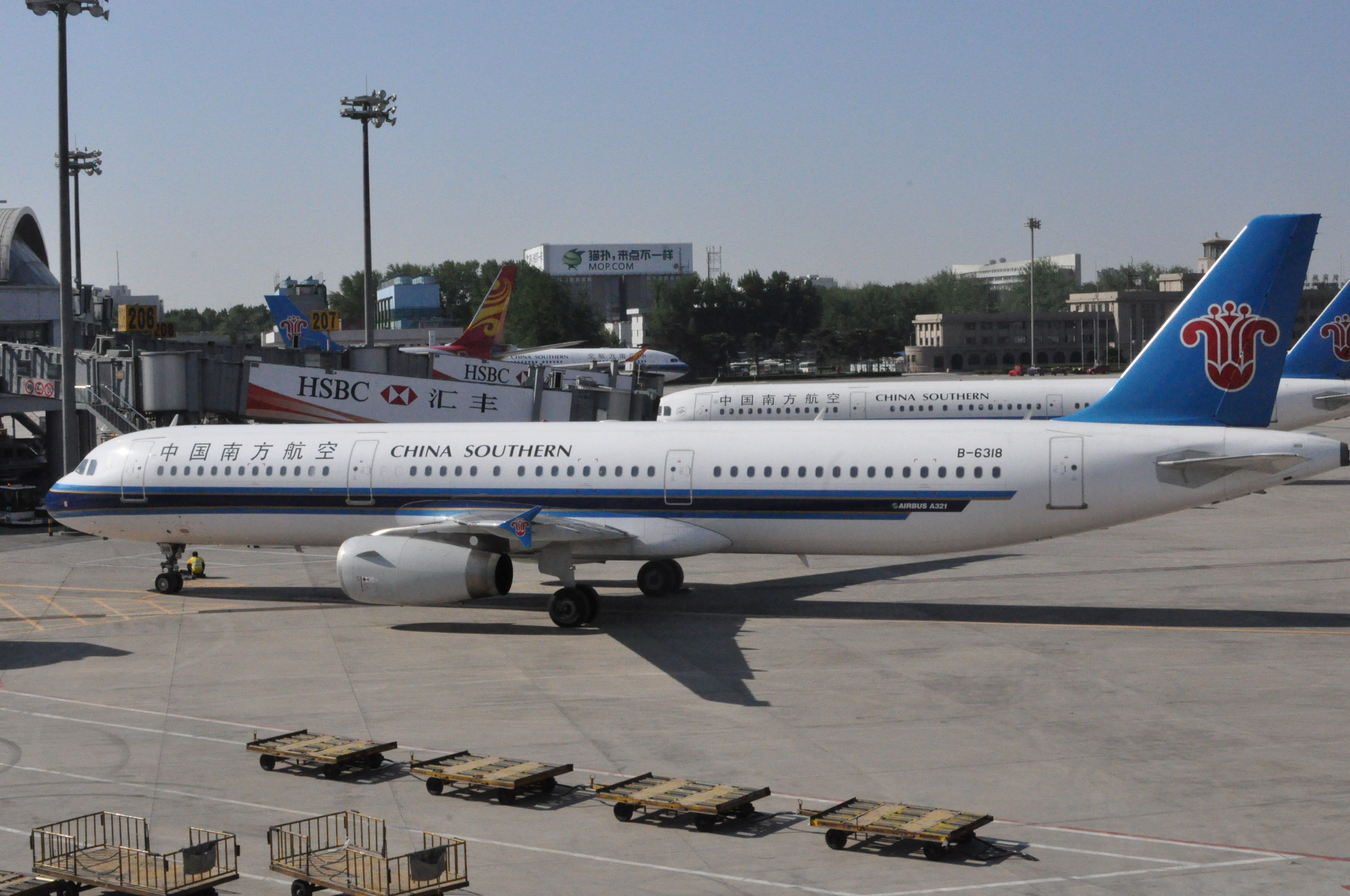 Beijing Capital Airport, Terminal 2